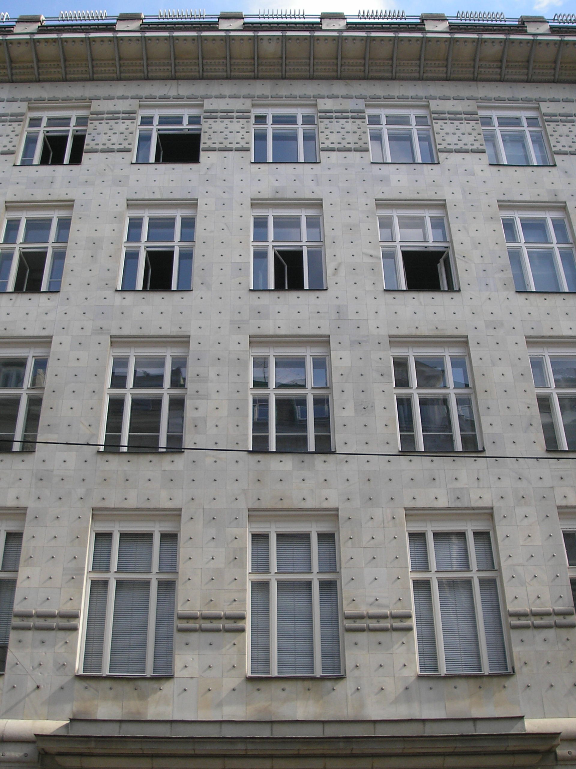 Detail image of the Österreichische Postsparkasse (P.S.K.), constructed by Otto Wagner.